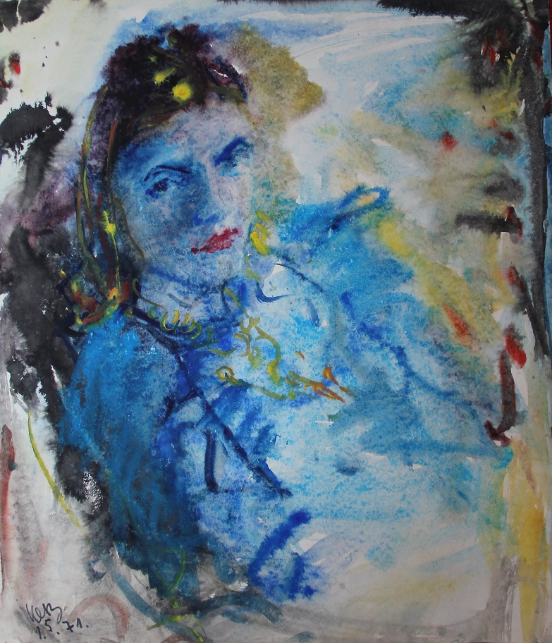 Aquarell 80 x 70 cm